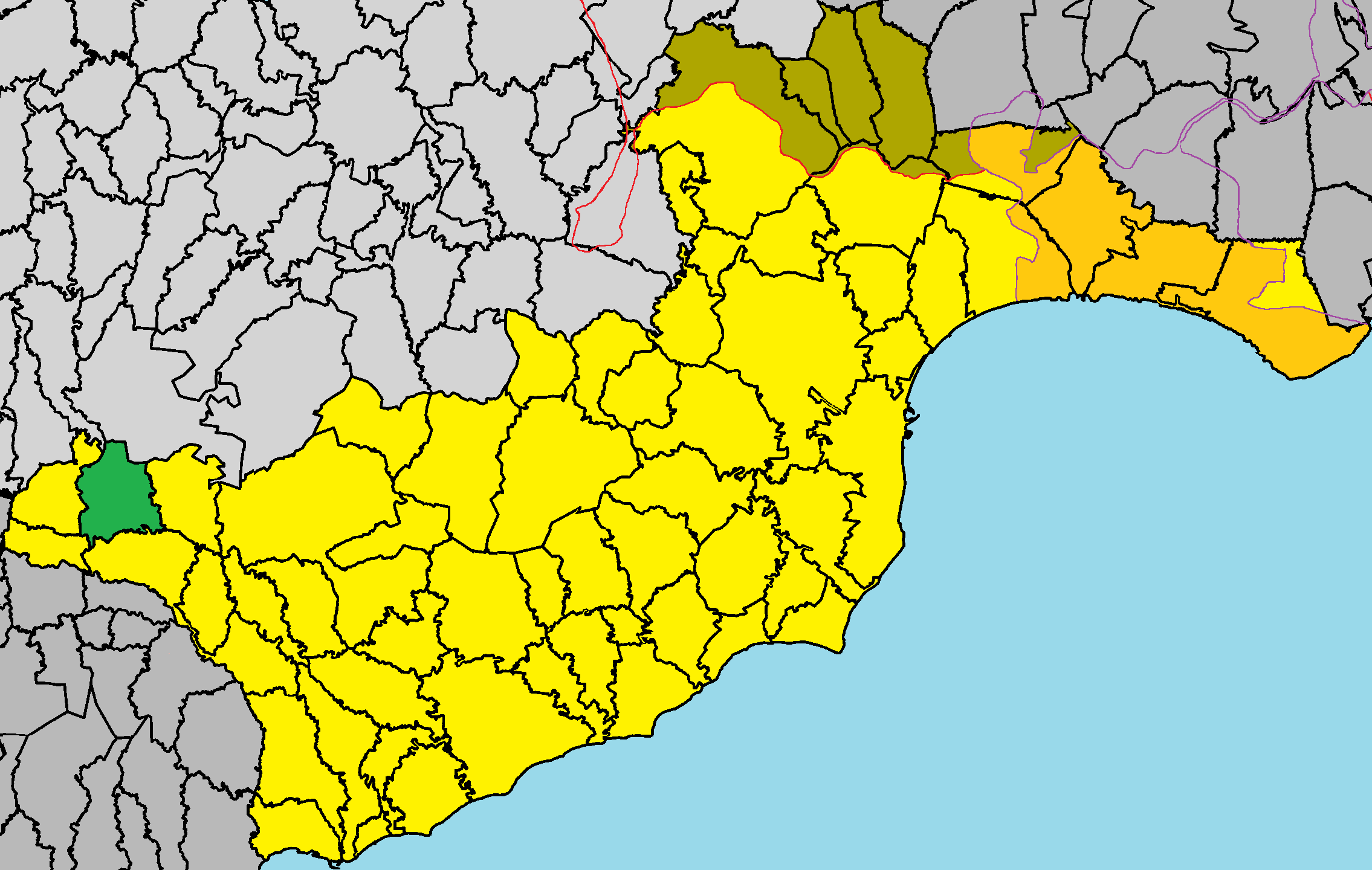 Agioi Vavatsinias in Larnaca District.